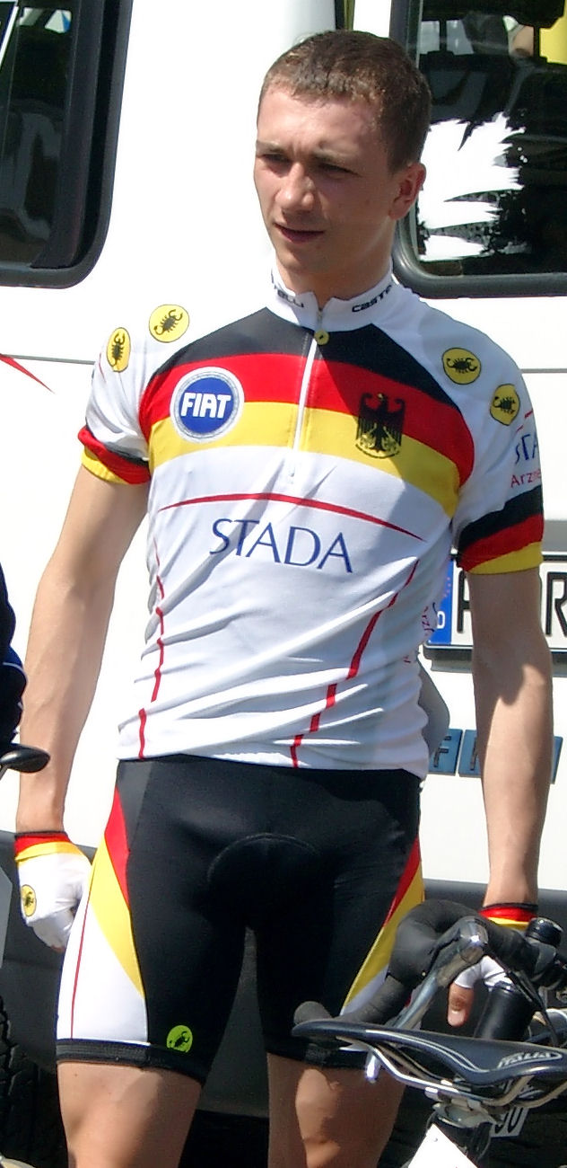 Depicted person: Christoph Pfingsten